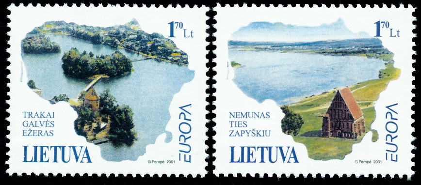 Postage stamps of Lithuania, 2001. Issue on the program Europa.